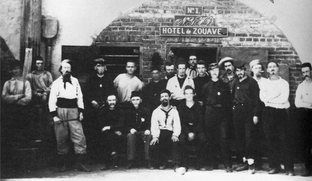 A group of the 11th New York Volunteer Infantry Regiment in a Confederate POW camp at Castle Pinckney, South Carolina. Image taken in 1861 following the First Battle of Bull Run.